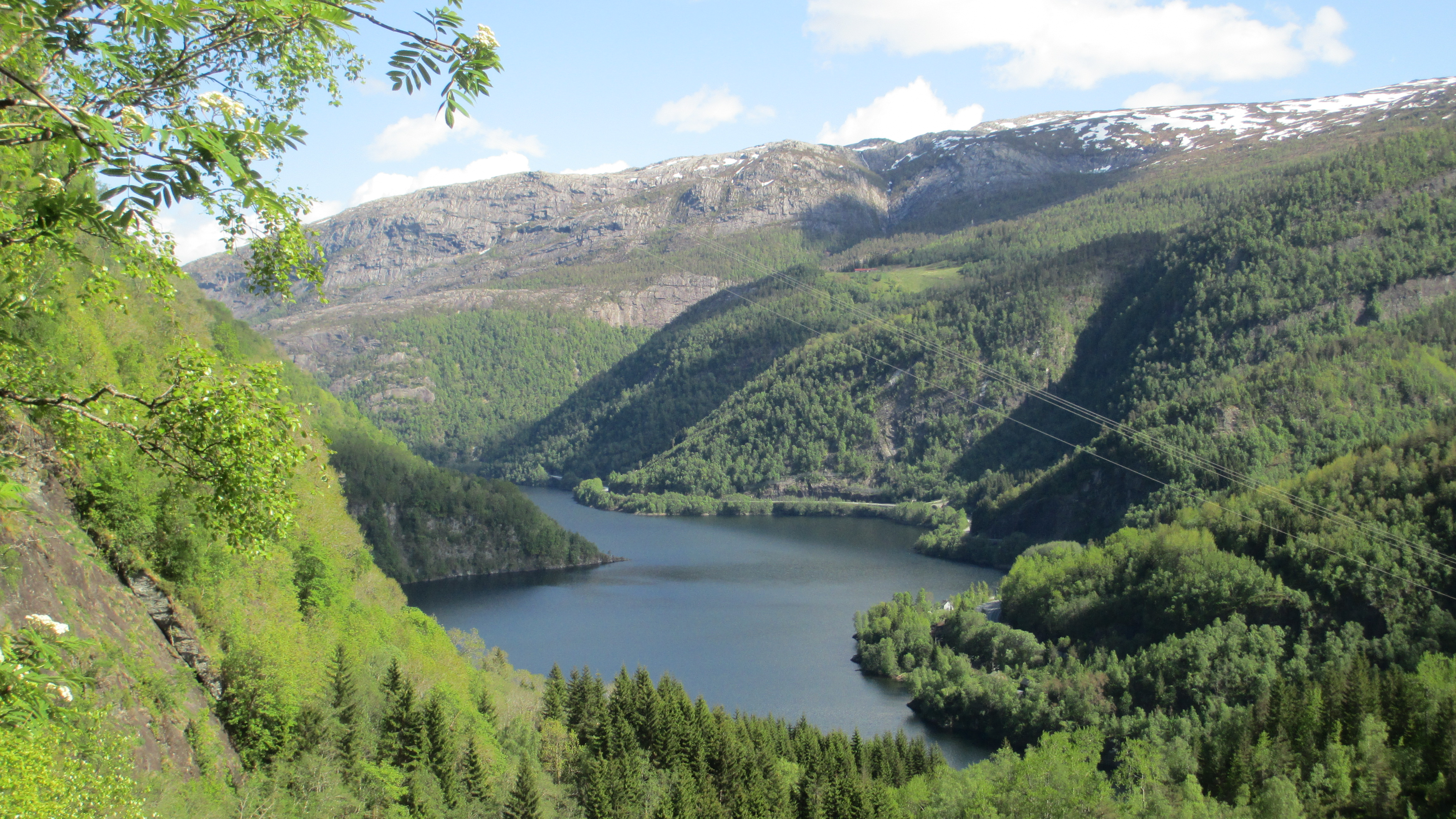 Evangervatnet (lake), seen from the west.